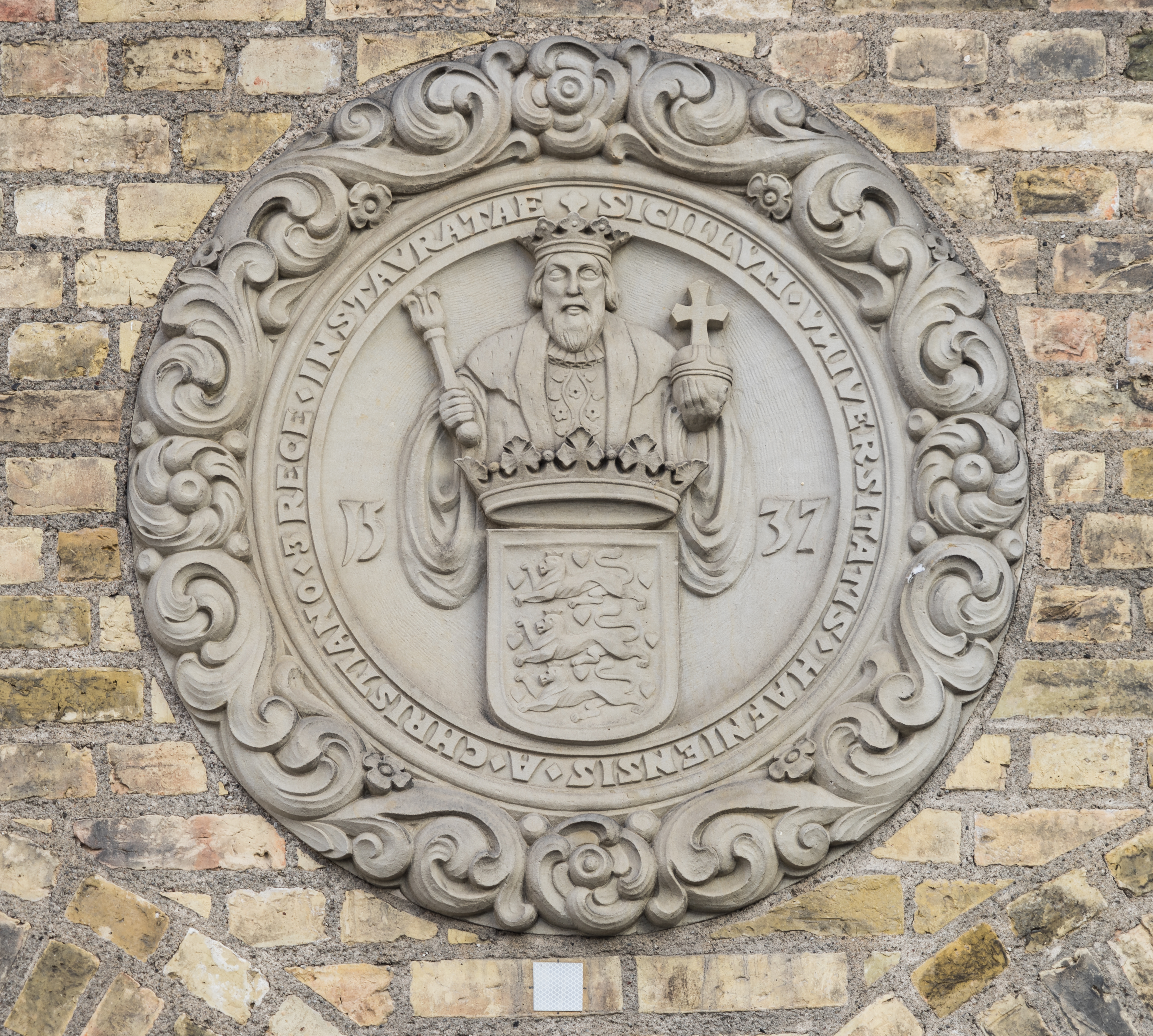 Seal of the University of Copenhagen, Denmark.